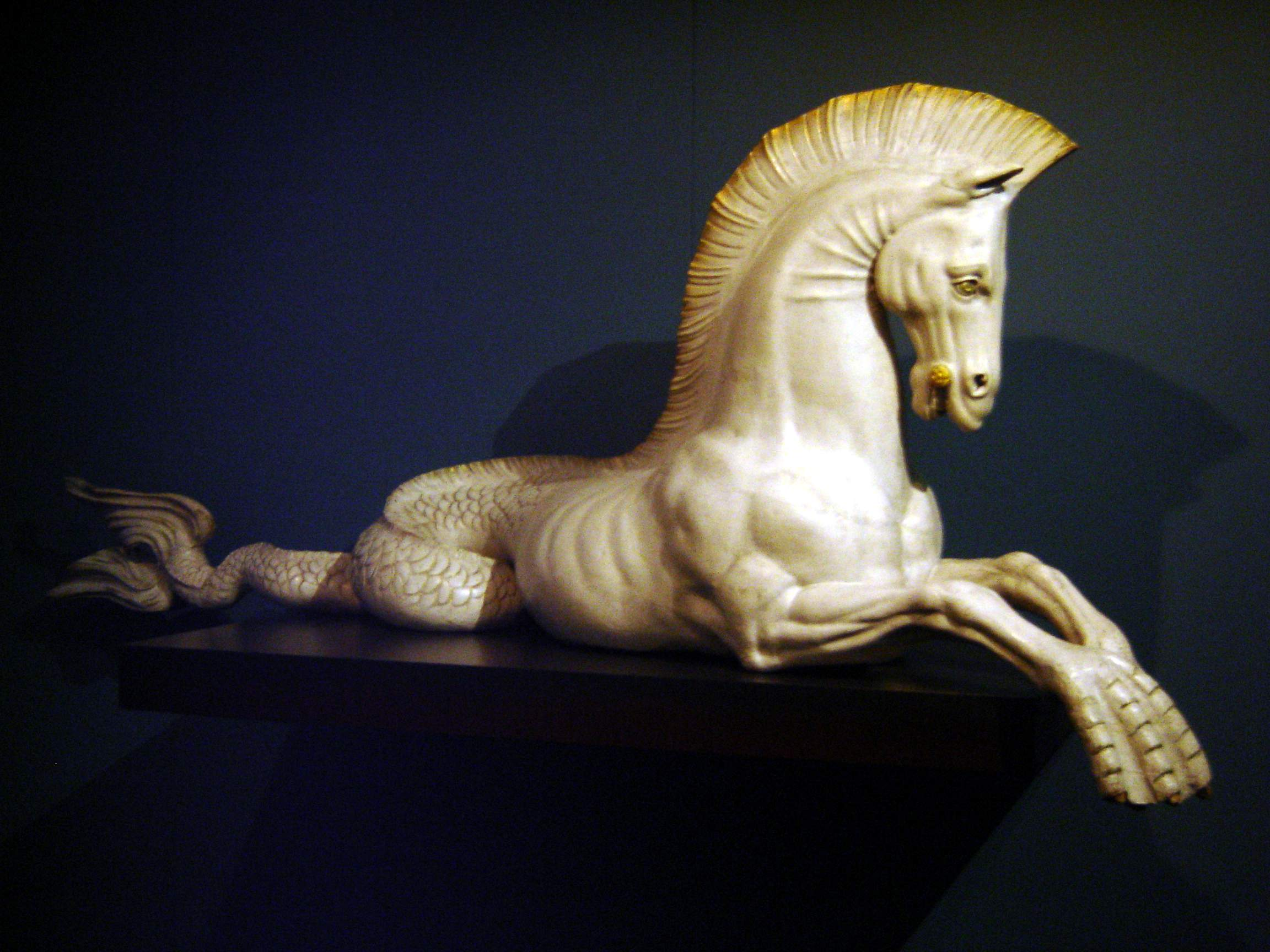 A sculpture of a heraldic depicition of a seahorse, by unknown 19th or 18th century French artist, showcased at the National Maritime Museum in Sydney, Australia.